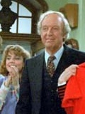 Conrad Bain.